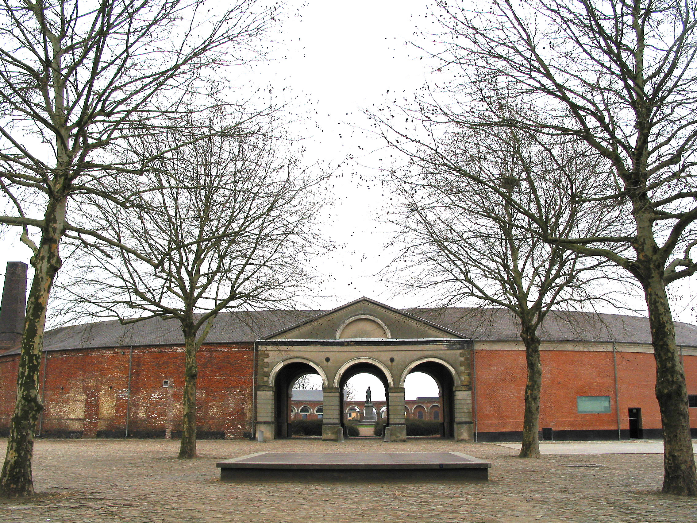 Hornu (Belgium), monumental neoclassical portico giving access to the second internal courtyard of the industrial complex called "Grand-Hornu" built by Henri De Gorge between 1810 and 1830, according to plans by architect Bruno Renard.